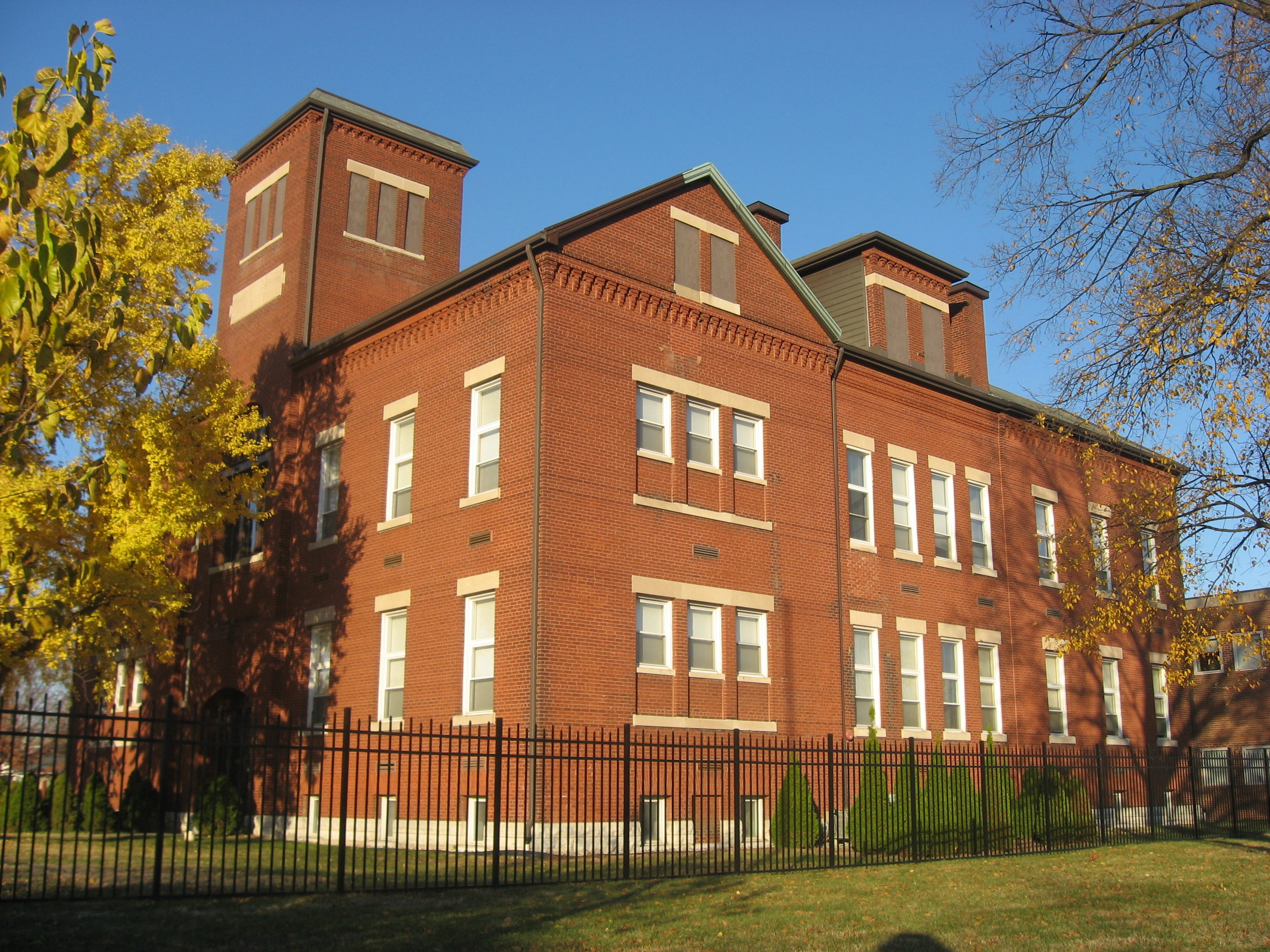 Front and southern side of Benjamin Franklin Public School Number 36, located at 2801 N. Capitol Avenue in Indianapolis, Indiana, United States. Built in 1896 and since converted into apartments, it is listed on the National Register of Historic Places.